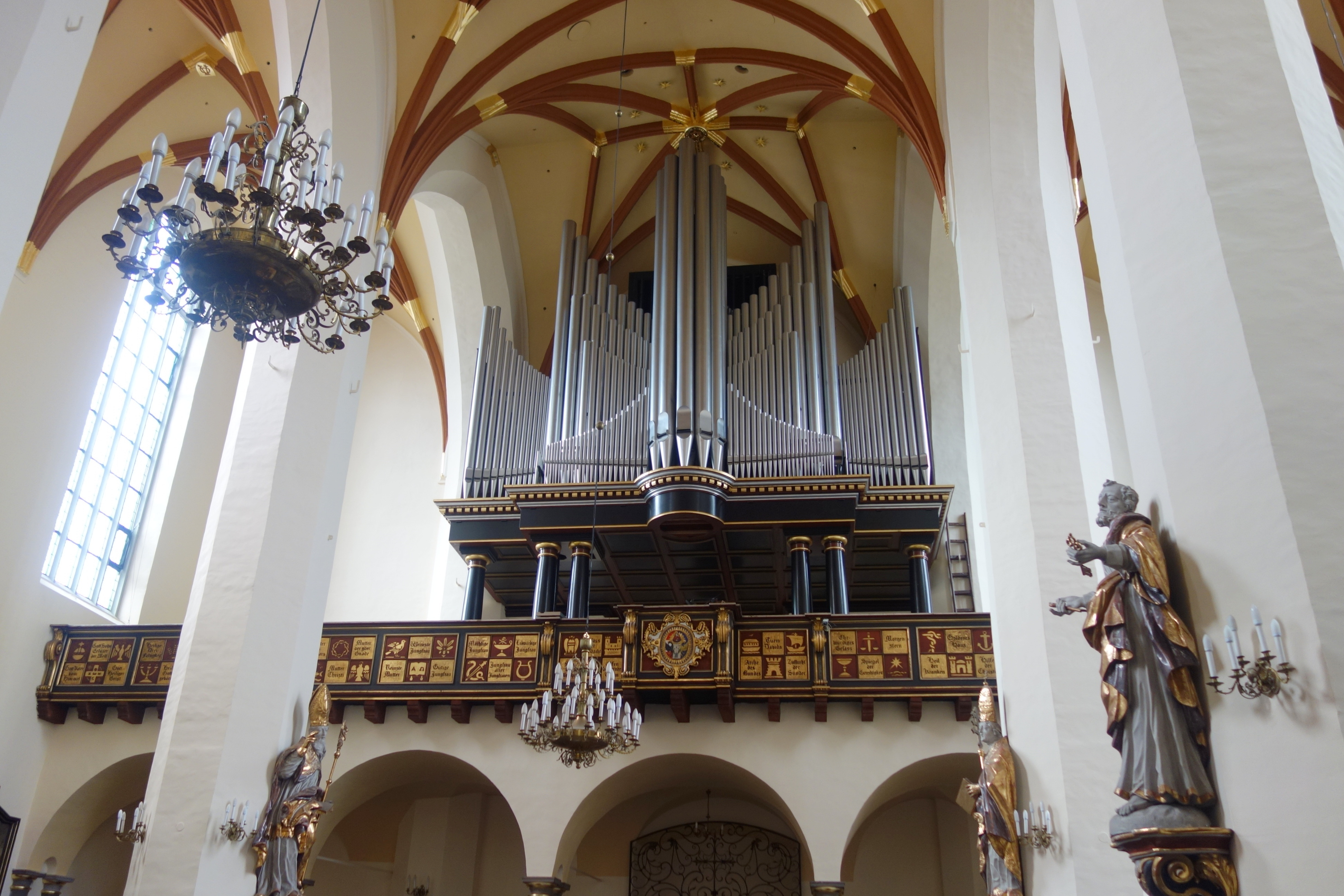 All Saints church in Gliwice, Poland